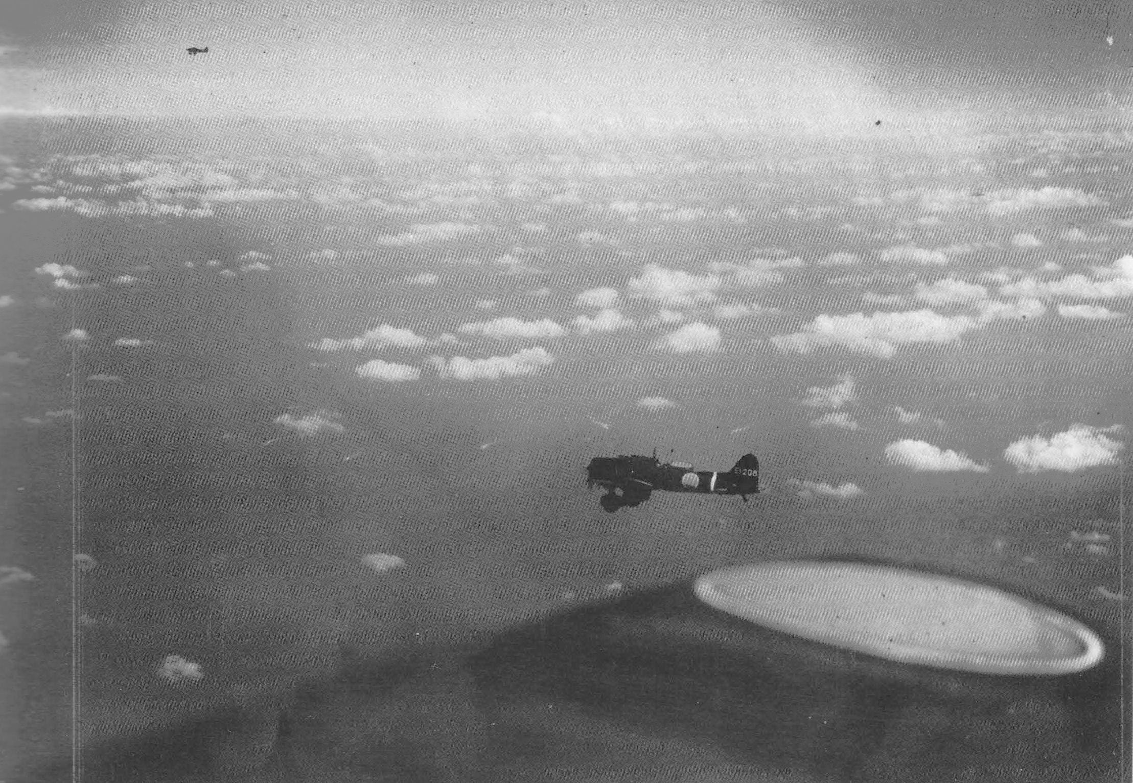 Aichi D3A Type 99 Kanbaku dive bombers on their way to attack United States Navy ships on May 7, 1942 during the Battle of the Coral Sea. The bomber seen across the wing is from Imperial Japanese Navy aircraft carrier Shōkaku. Note the single white stripe around the rear end of fuselage, which was Shōkaku identifier (e.g., Zuikaku identifier was a double white stripe). This photo is probably from the morning attack on the fleet oiler Neosho and destroyer Sims but could be from the unsuccessful afternoon mission to locate and attack the US Navy aircraft carriers Yorktown and Lexington.